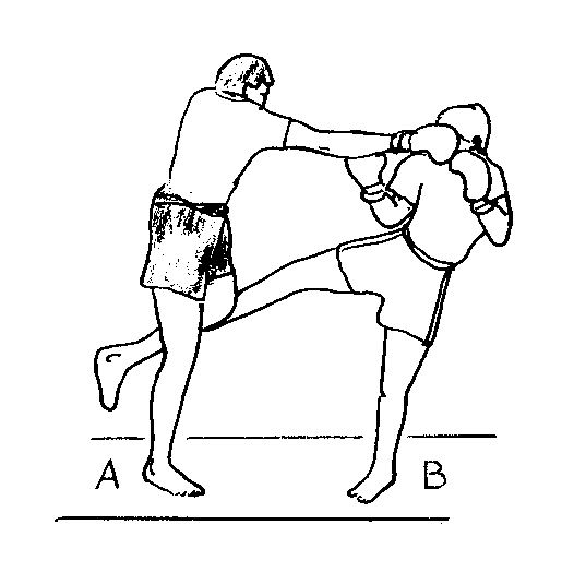 Counter-punch